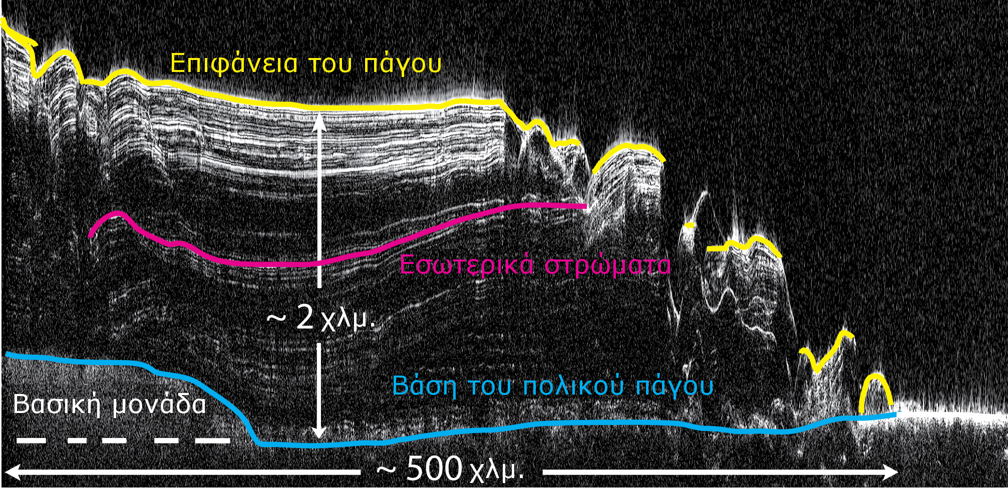 Translation of File:PIA13164 North Polar Cap Cross Section, Annotated Version.jpg to Greek